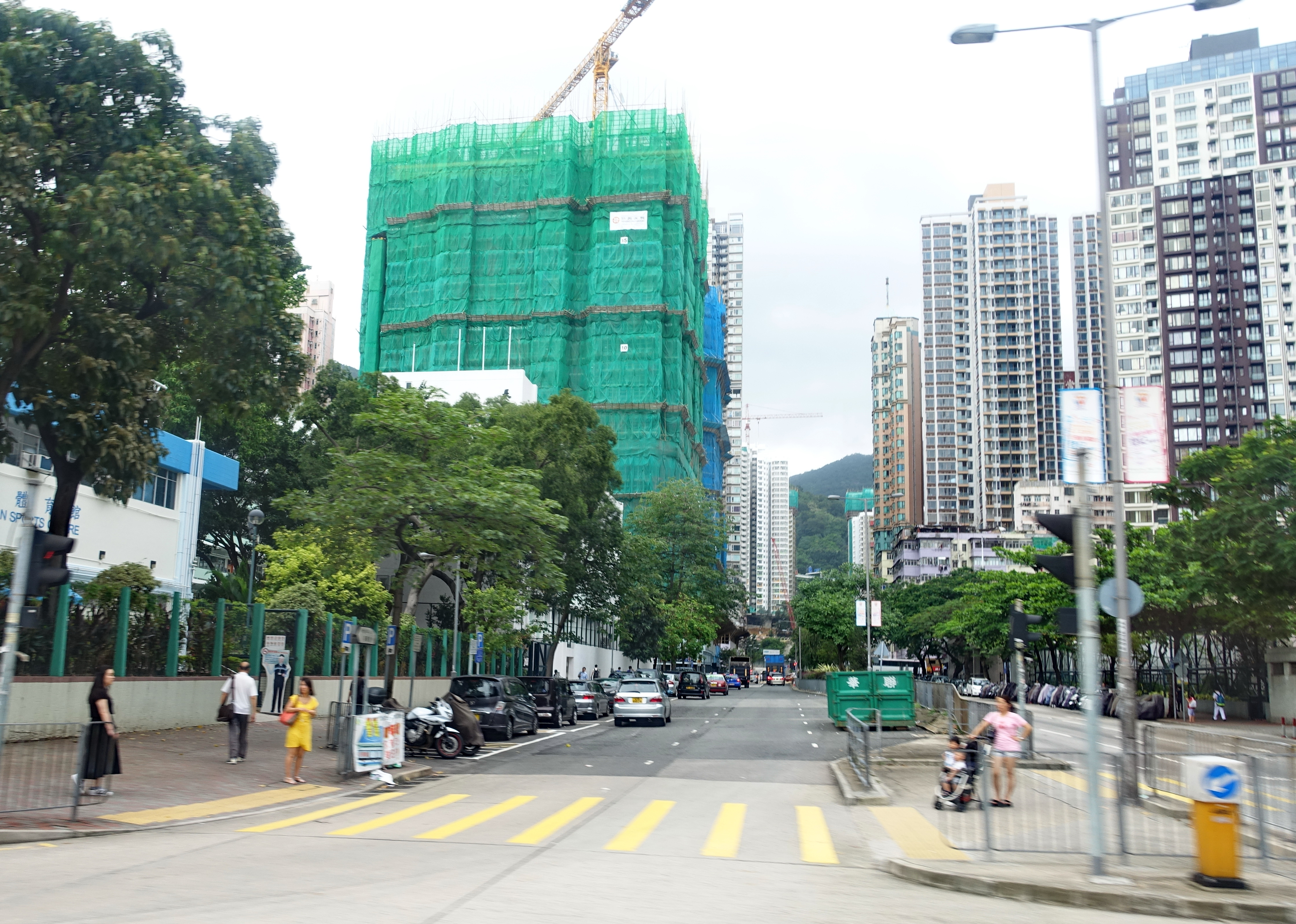 The intersection of Hing Wah Street and Cheung Sha Wan Road, Kowloon, Hong Kong.